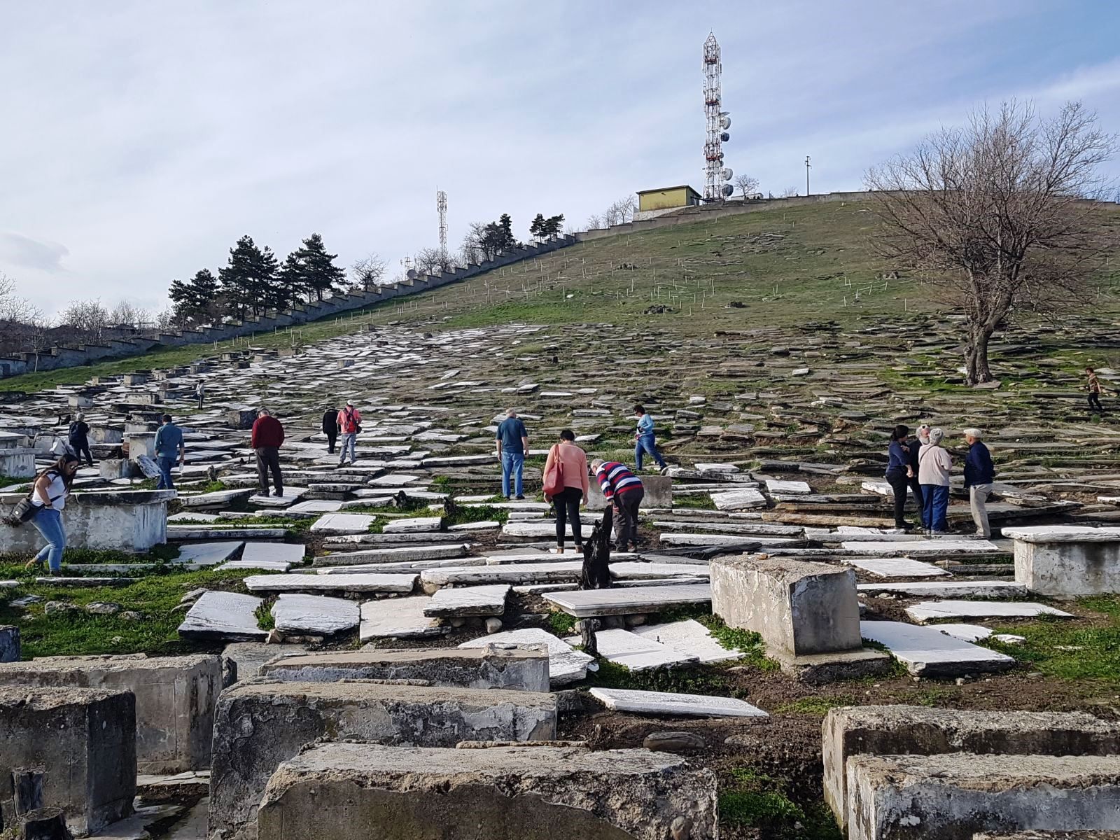 A view of the Jewish Cemetery in Bitola 2018